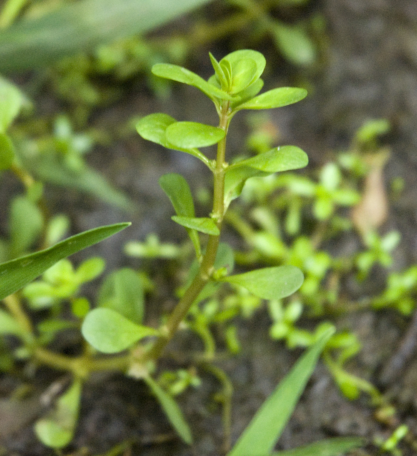 Lythrum portula (= Peplis portula), Forest of Saint-Michel (Aisne), France